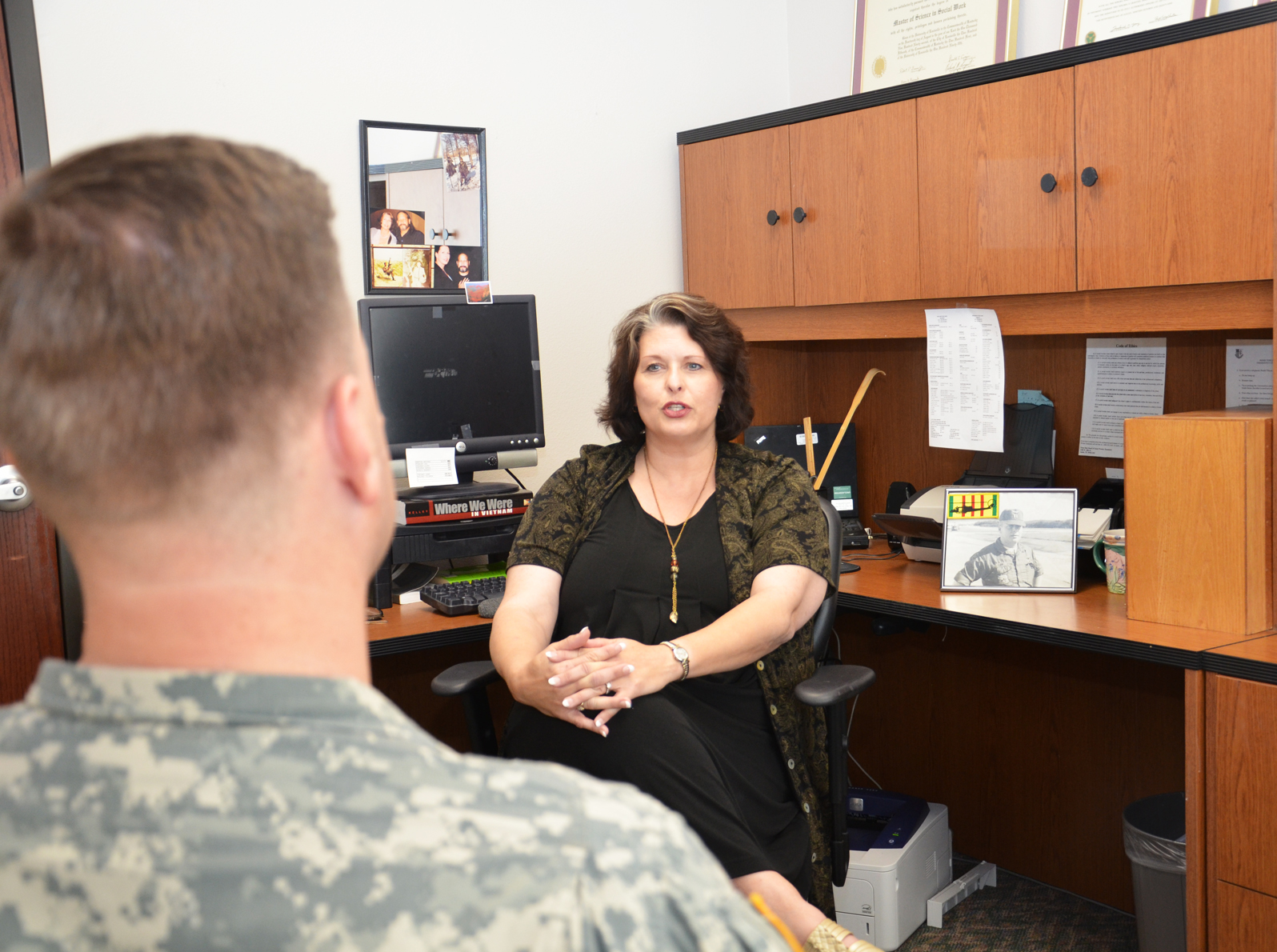 Kimberly Bayes-Bautista, supervisory social worker for the CRDAMC Social Work-Out Patient Services, counsels a patient in her office. Bayes-Bautista feels a special connection to the military and made the decision a few years ago to put her years experience to help make a difference in Soldiers' life. (U.S. Army photo by Patricia Deal, CRDAMC Public Affairs)